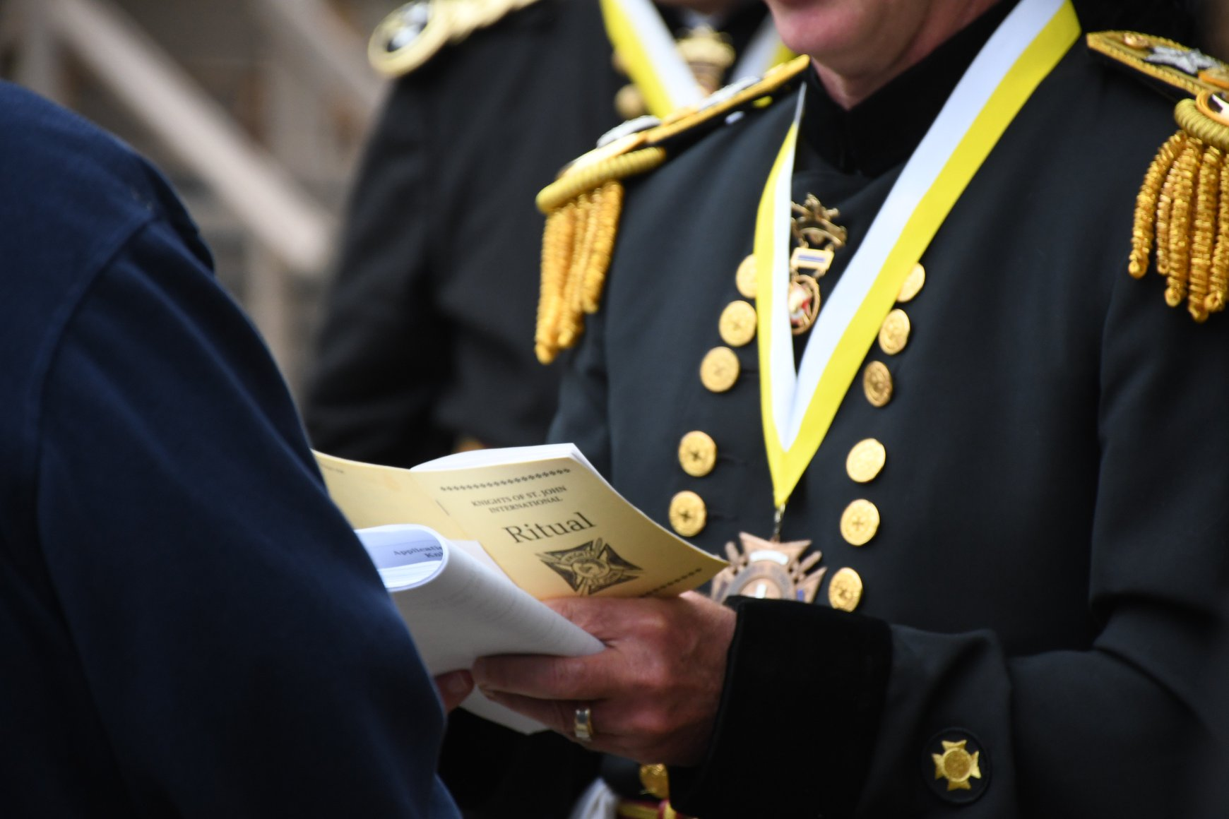 Knights of St. John leader reading from the Knights' ritual book